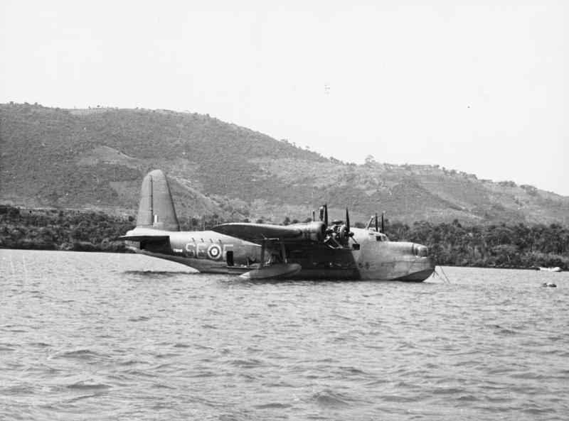 IWM caption : Short Sunderland, T9040 'SE-E', of No. 95 Squadron RAF, moored in Fourah Bay, Freetown, Sierra Leone.